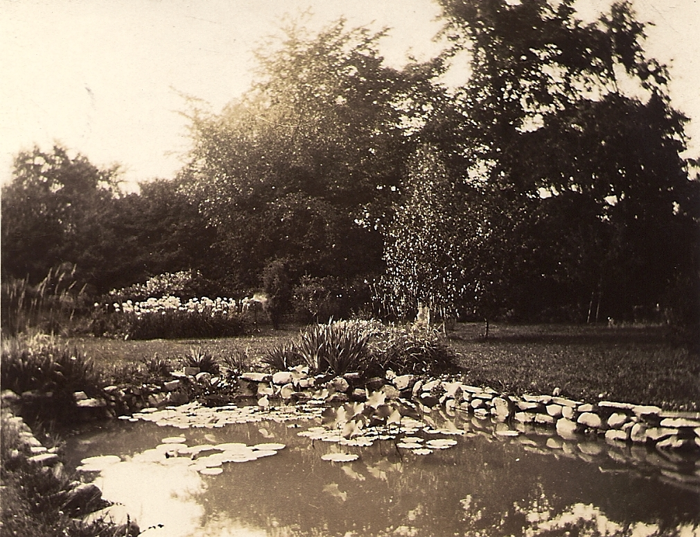 In the garden at Interpines Sanitarium, Goshen, NY. The Lily pond in 1930. Picture by Edna Kelly